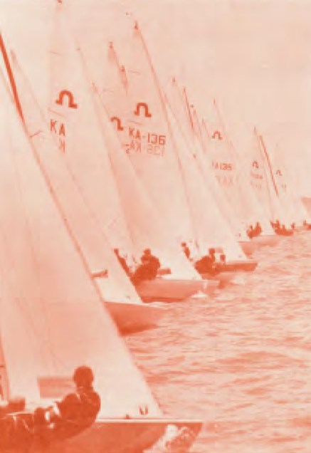 Start at the 1978-79 Australian Soling Championship